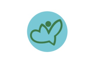 Flag of Osakikamishima Hiroshima